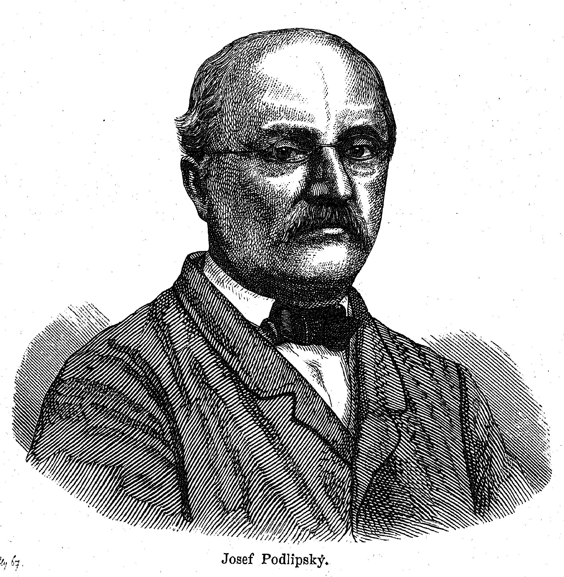 Portrait of Josef Podlipský (1816 - 1867), Czech physician, journalist and politician